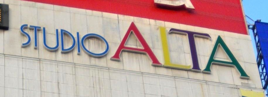 A photo of studio ALTA,Shinjuku,Shinjuku-ku,Tokyo,Japan.Studio ALTA is a famous building for recording "Waratte iitomo!",which is a very popular program at noon in Japan. Also ALTA is a famous place where waiting for persons at Shinjuku.